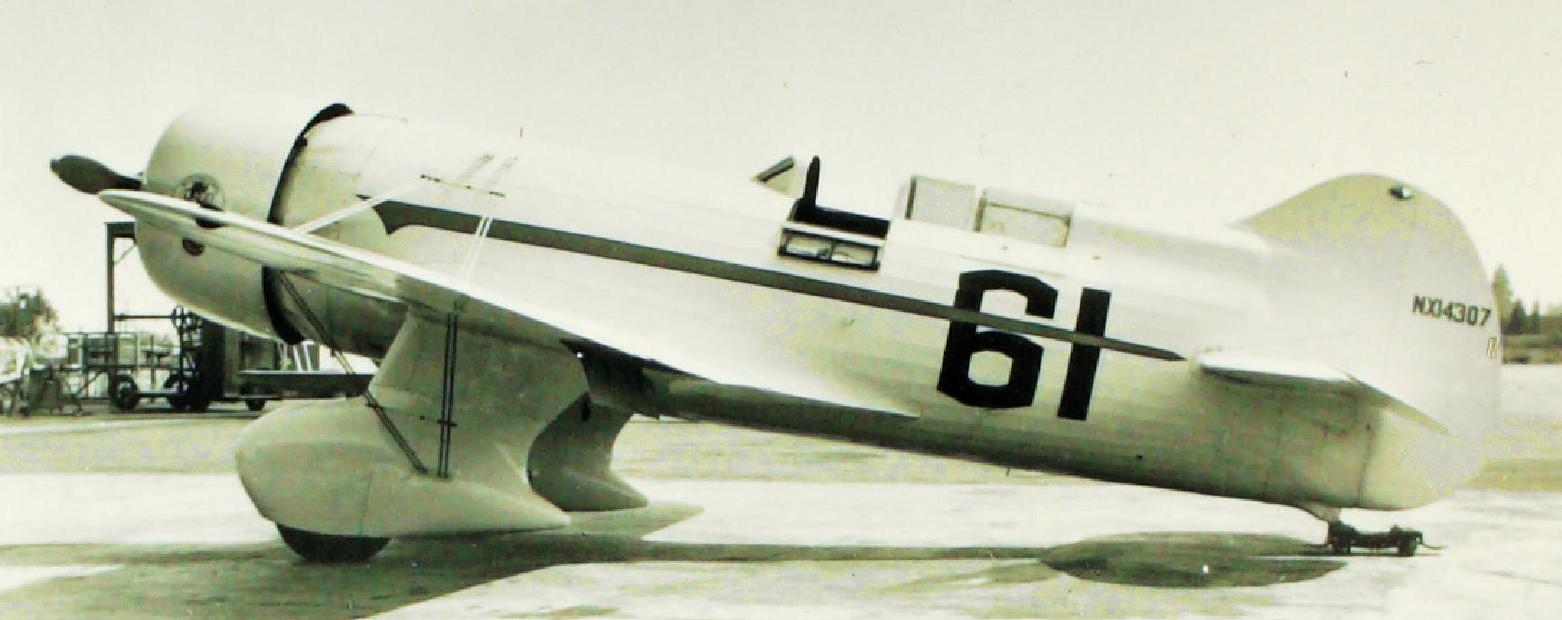 Catalog #: 01_00091519 Title: Gee Bee, Q.E.D. Corporation Name: Granville Brothers (Gee Bee) Designation: Q.E.D. Additional Information: USA As flown by Charles Babb in the 1938 Bendix race. Repository: San Diego Air and Space Museum Archive